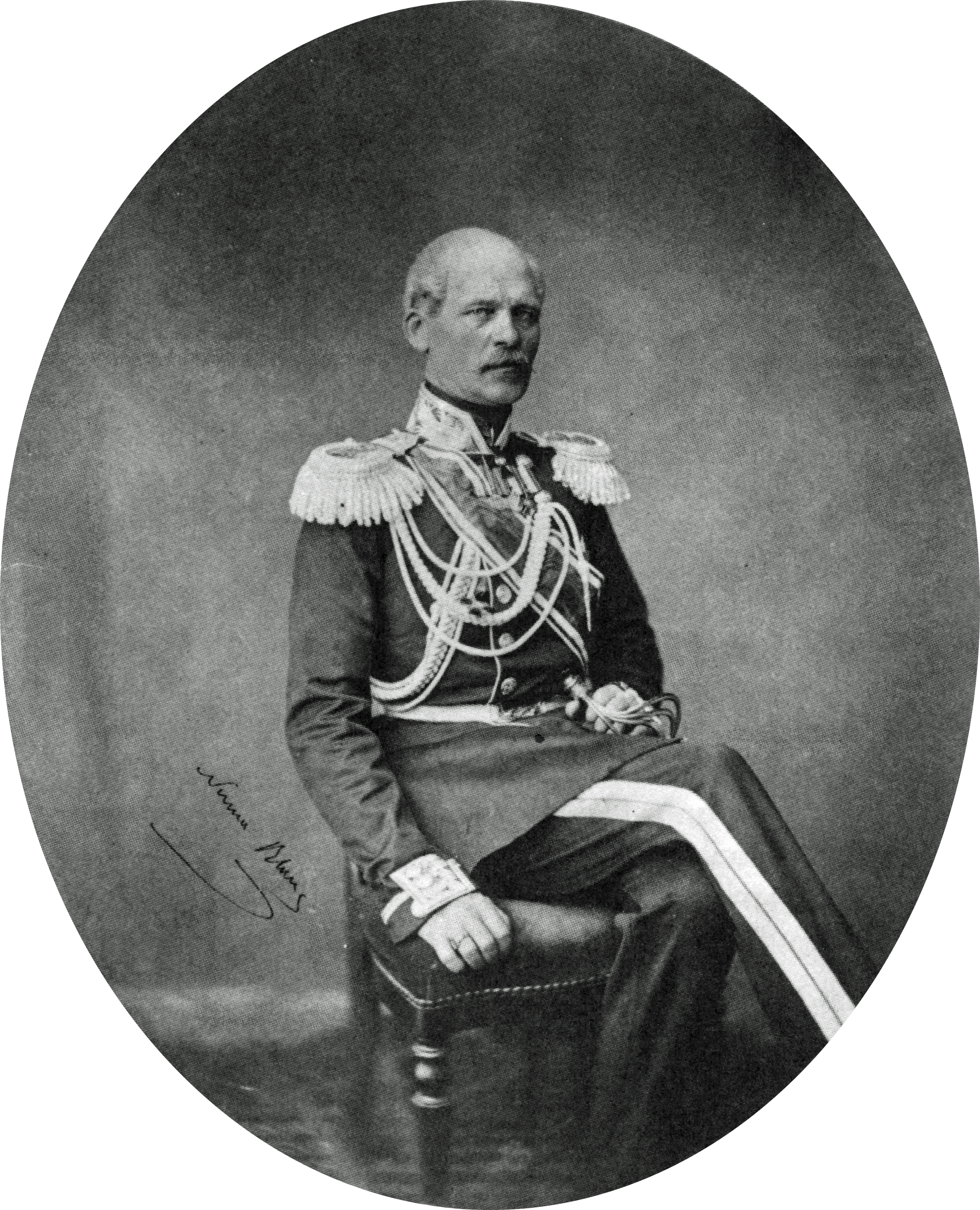 Finnish lieutnant colonel and public official Casimir von Kothen (1807-1880).